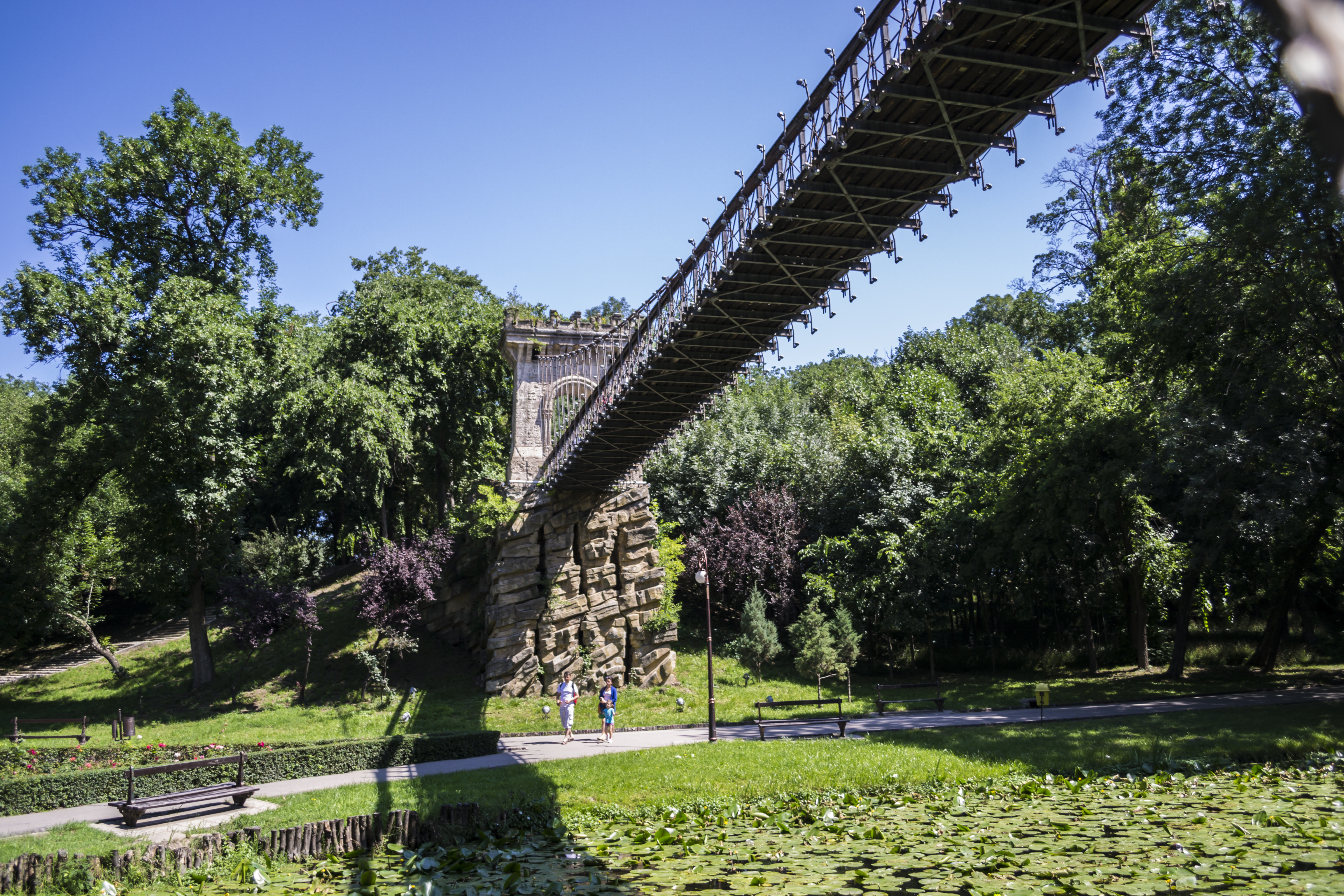 The suspended bridge connecting two hill tops, in the Nicolae Romanescu Park, Craiova